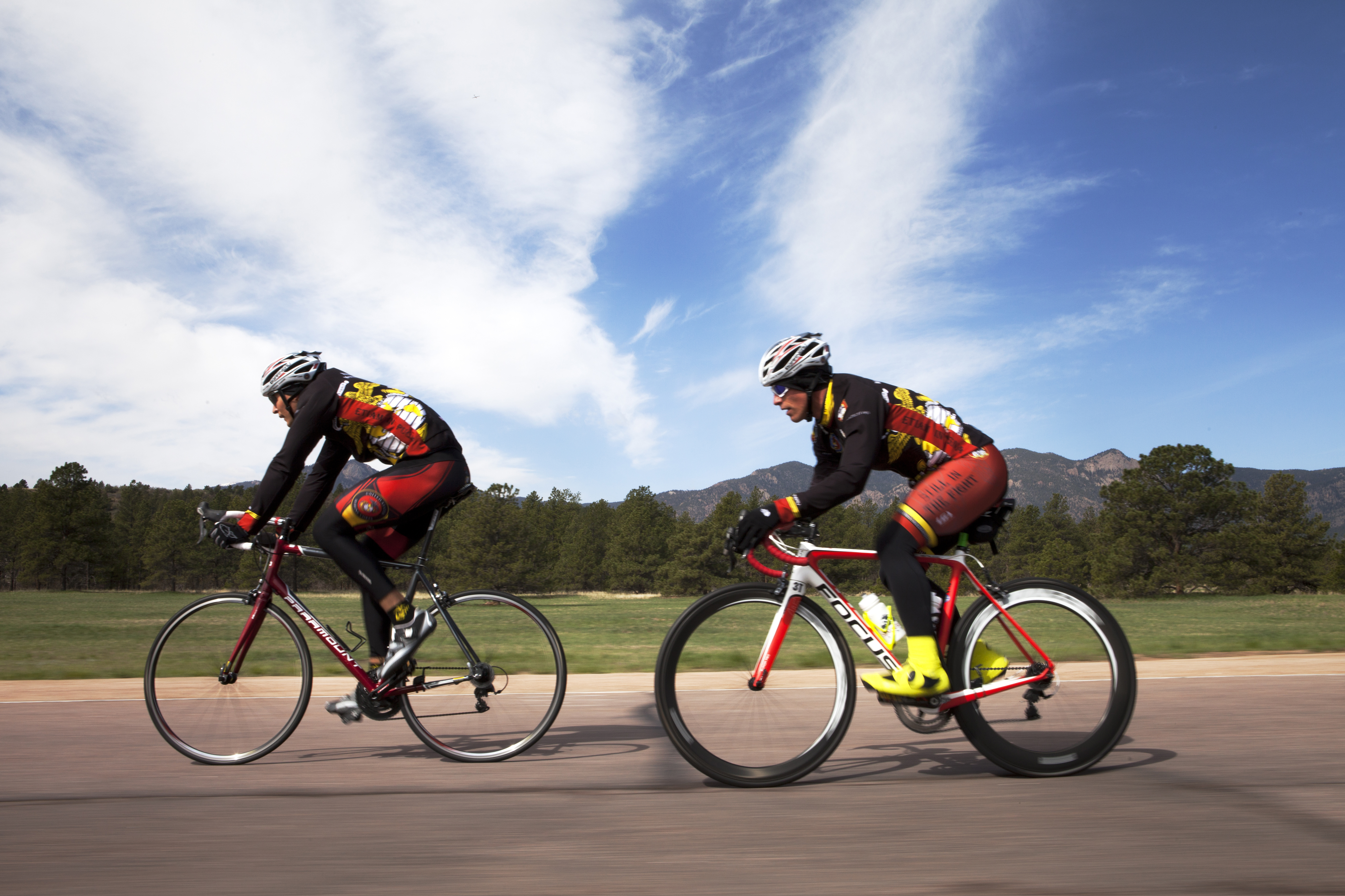 U.S. Marine Corps Sgt. Cogen T. Nelson, right, cycles during practice for the 2012 Warrior Games in Colorado Springs, Colo., on April 28, 2012. Nelson is a second-time participant in the event and will be competing for the Ultimate Champion title. The Warrior Games is an annual event allowing wounded, ill and injured Service members and veterans to compete in Paralympics sports including archery, cycling, shooting, sitting volleyball, track and field, swimming and wheelchair basketball.